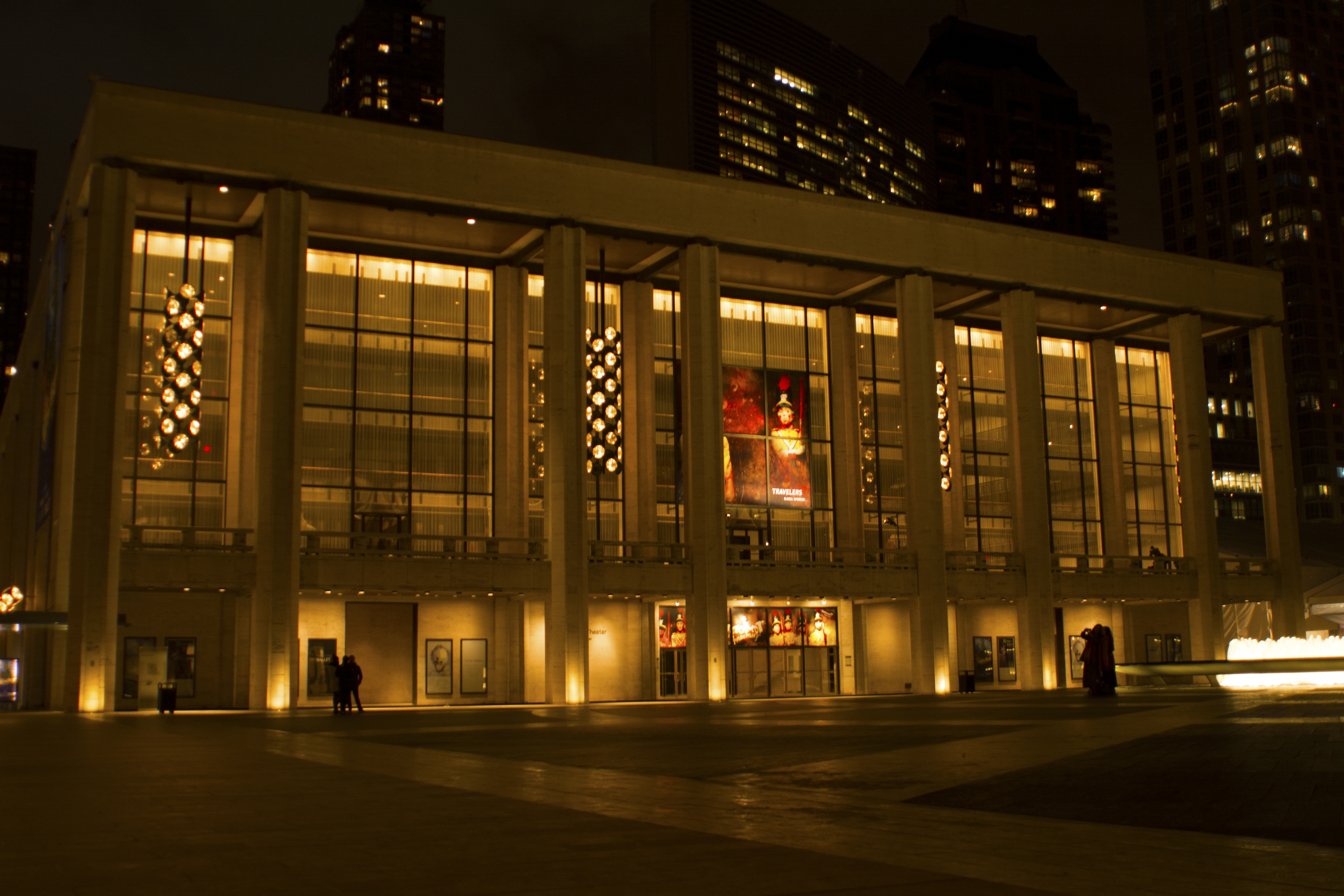 The David H. Koch Theater at Lincoln Center photo D Ramey Logan